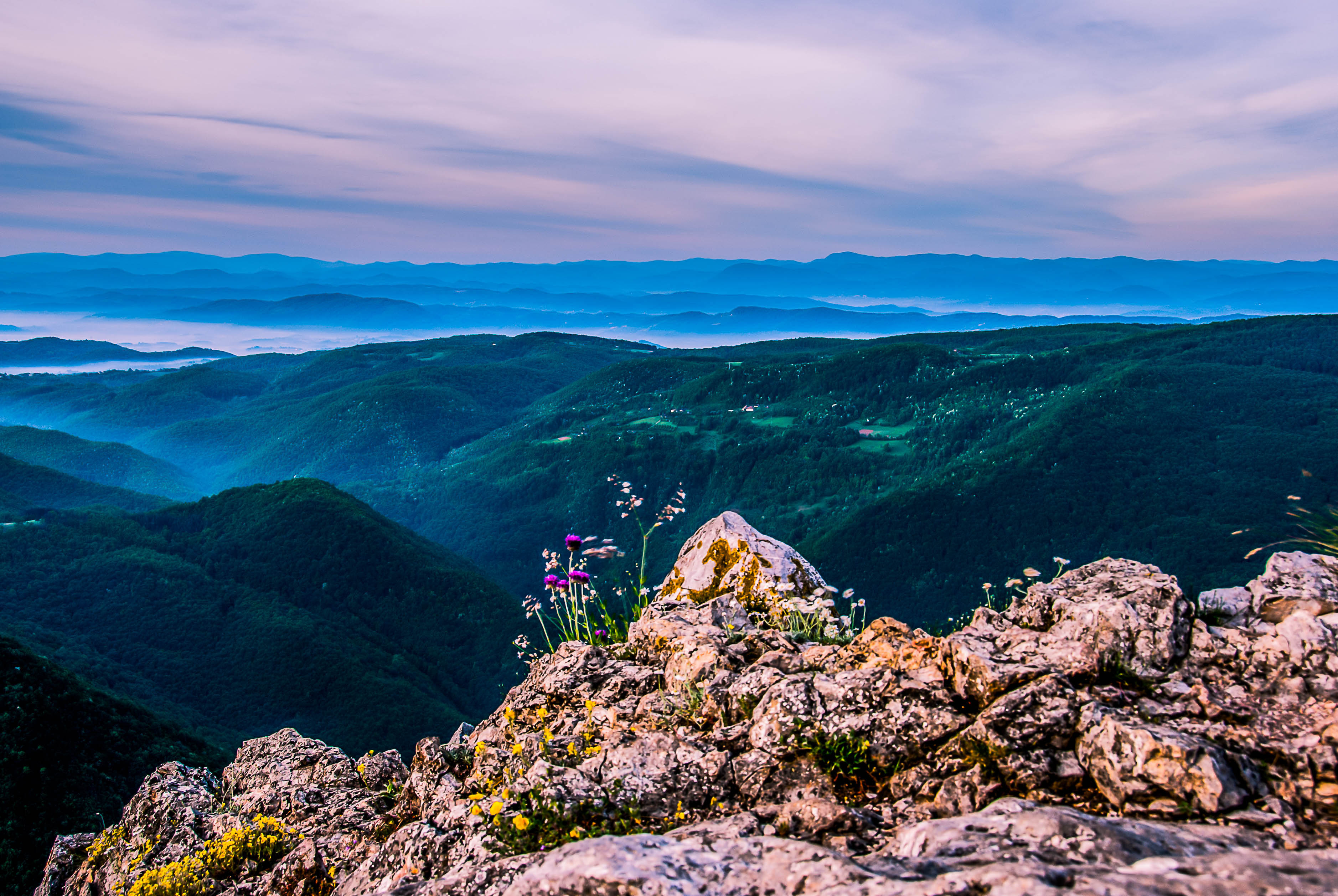 Ovčar-Kablar Gorge (Serbian Cyrillic: Овчарско-кабларска клисура/Ovčarsko-kablarska klisura) is a gorge in the western Serbia, part of the composite valley of the West Morava river. With over 30 monasteries built in the gorge since the 14th century, it is known as the "Serbian Mount Athos".